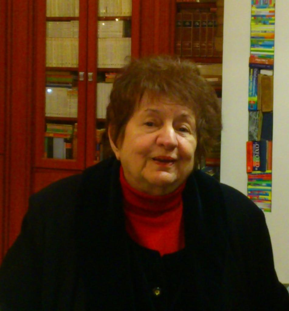 Prof. Dr Ileana Čura (1930—2016), Serbian philologist and anglicist, professor at the University of Belgrade. Photo was taken during a visit to the Society for Culture, Art and International Cooperation Adligat in Belgrade, Serbia. Српски (ћирилица): Проф. др Илеана Чура, професорка енглеског језика и књижевности Филолошког факултета у Београду, током посете Удружењу Адлигат.